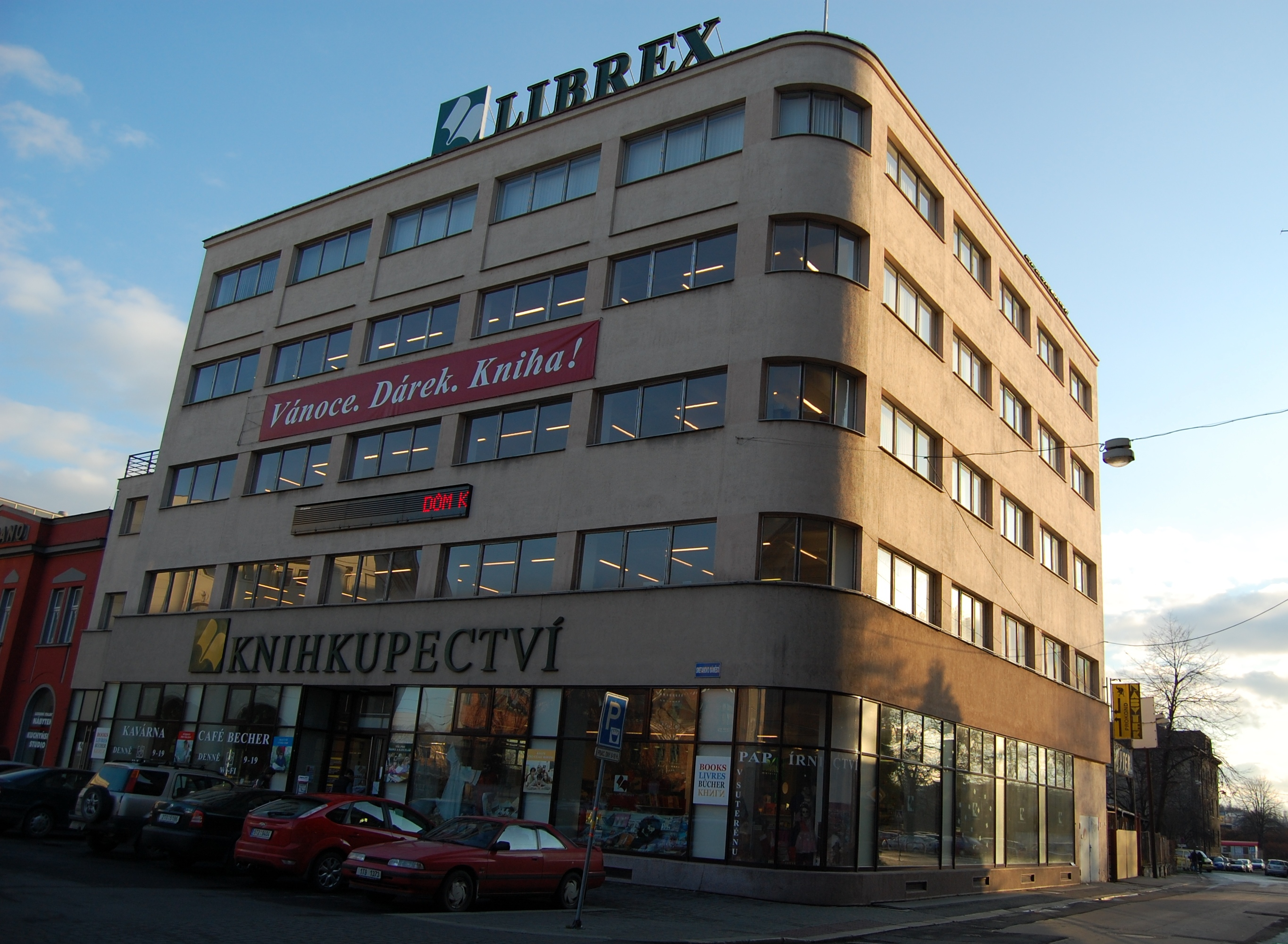 Brouk and Babka shopping mall. Nowadays, it's LIBREX bookstore.